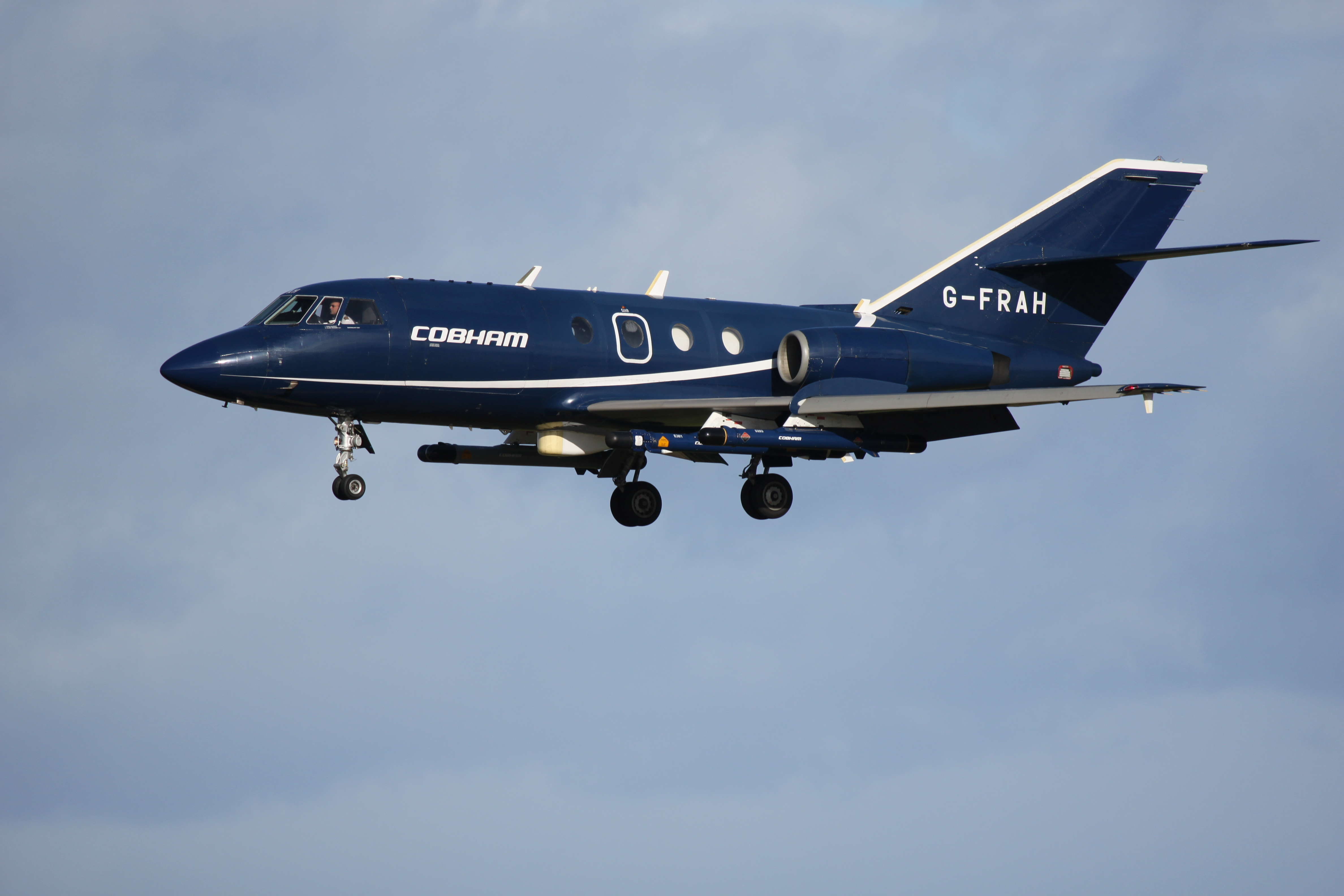 Cobham Falcon about to touch down